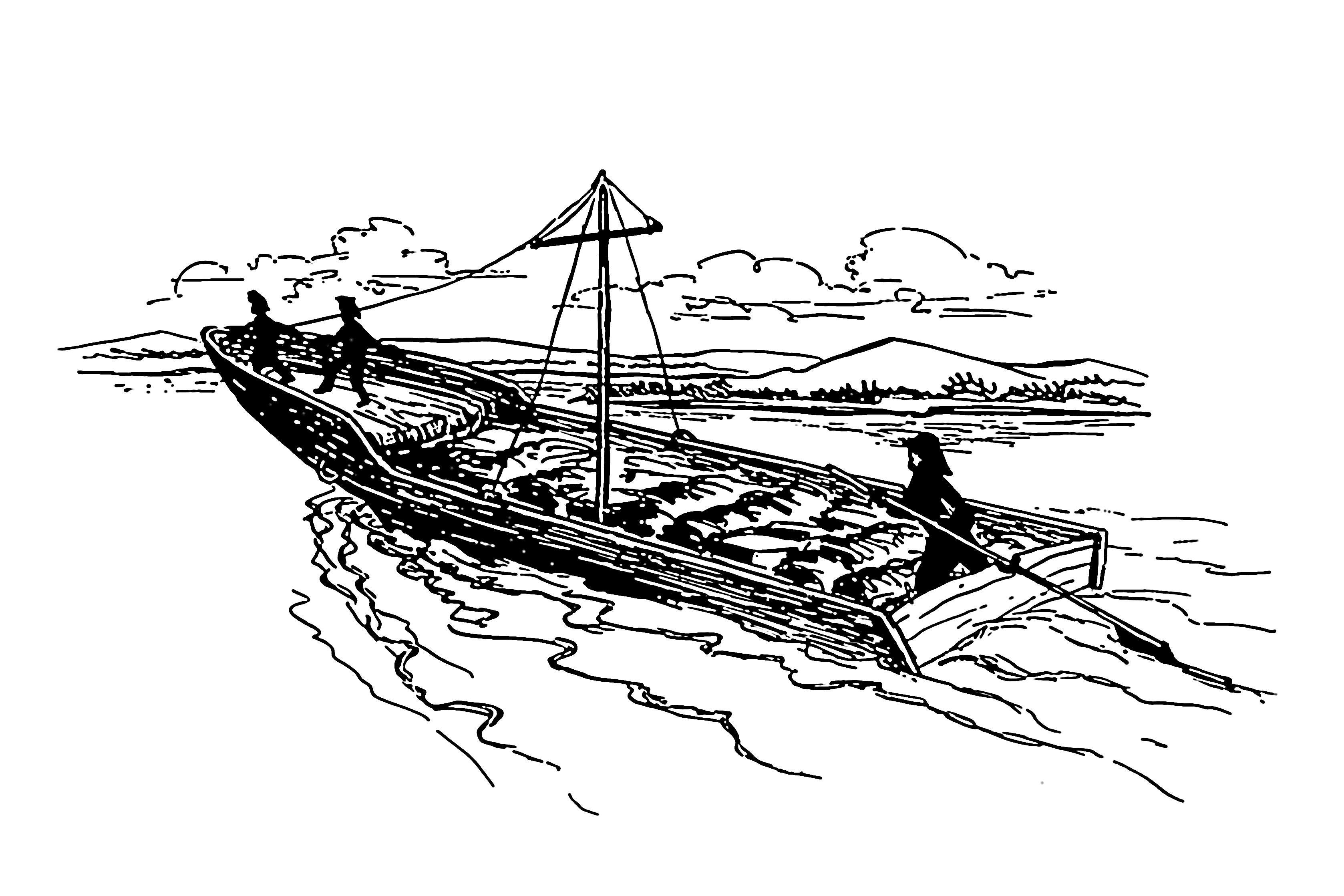 Line art drawing of a bateau.